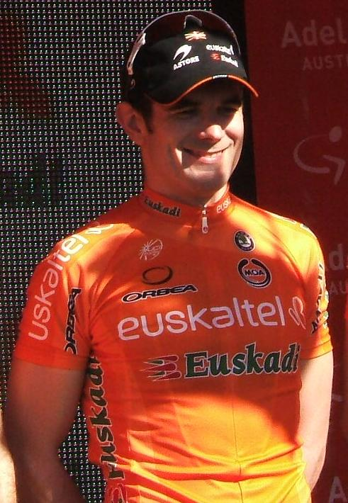 Named cyclist at the en:2009 Tour Down Under team presentation